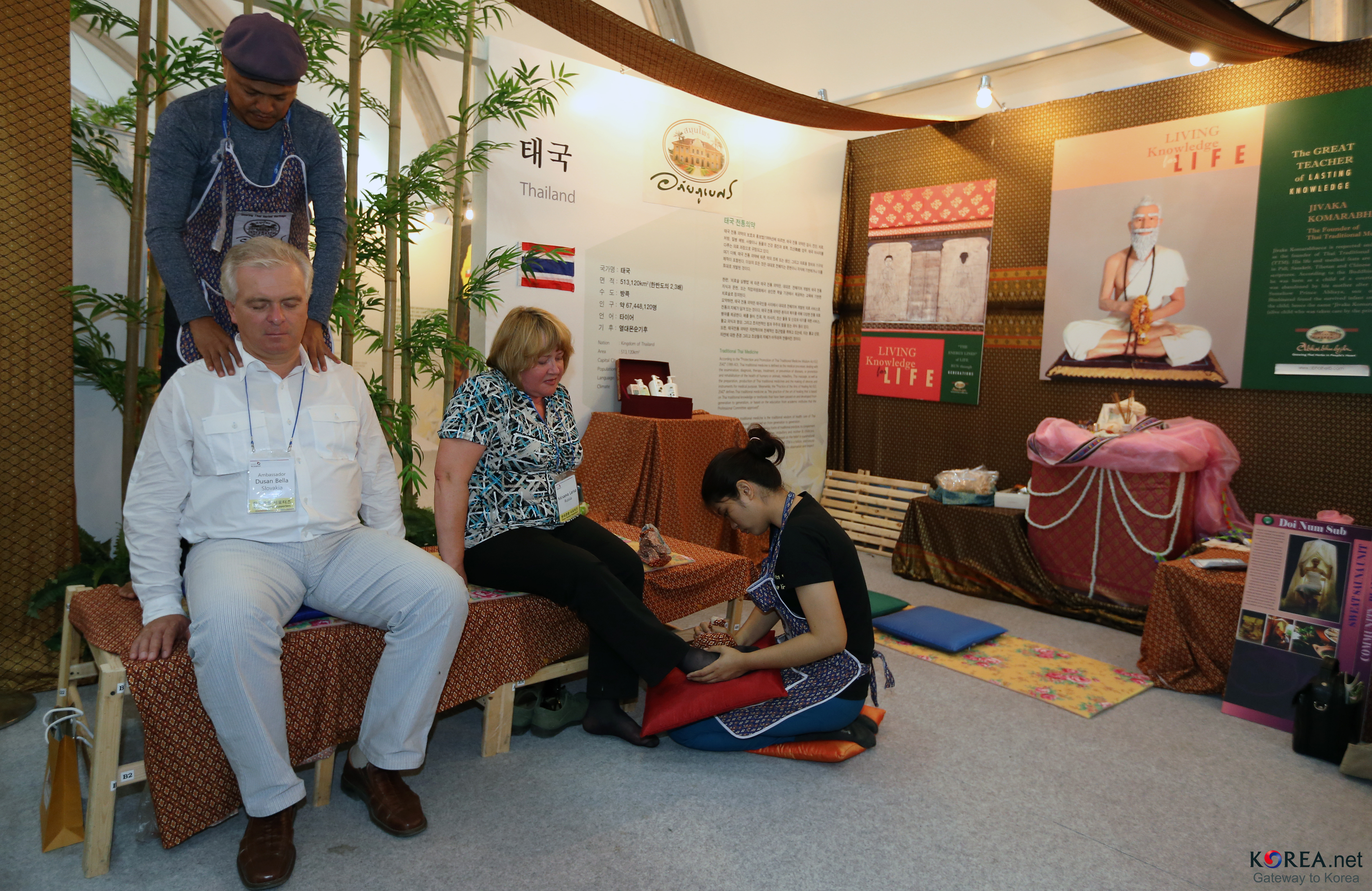 World Traditional Medicine EXPO in Sancheong, Korea 2013 The World Traditional Medicine Fair & Festival is the world's first fair dedicated to traditional medicine. It is a place to exchange information and products for enhancing human health. The 2013 World Traditional Medicine Fair & Festival will celebrate the 400th anniversary of the publication of Donguibogam (Korean ancient medical book) and its registration on UNESCO Memory of the World program. The event will take place at Donguibogam Village and Korean Traditional Medicine Town in Sancheong-gun. 2013.09.27. Sancheong-gun, Gyeongsangnam-do Ministry of Culture, Sports and Tourism Korean Culture and Information Service ( JEON HAN 2013 산청 세계전통의약엑스포 산청군, 경상남도 문화체육관광부 해외문화홍보원 코리아넷 전한